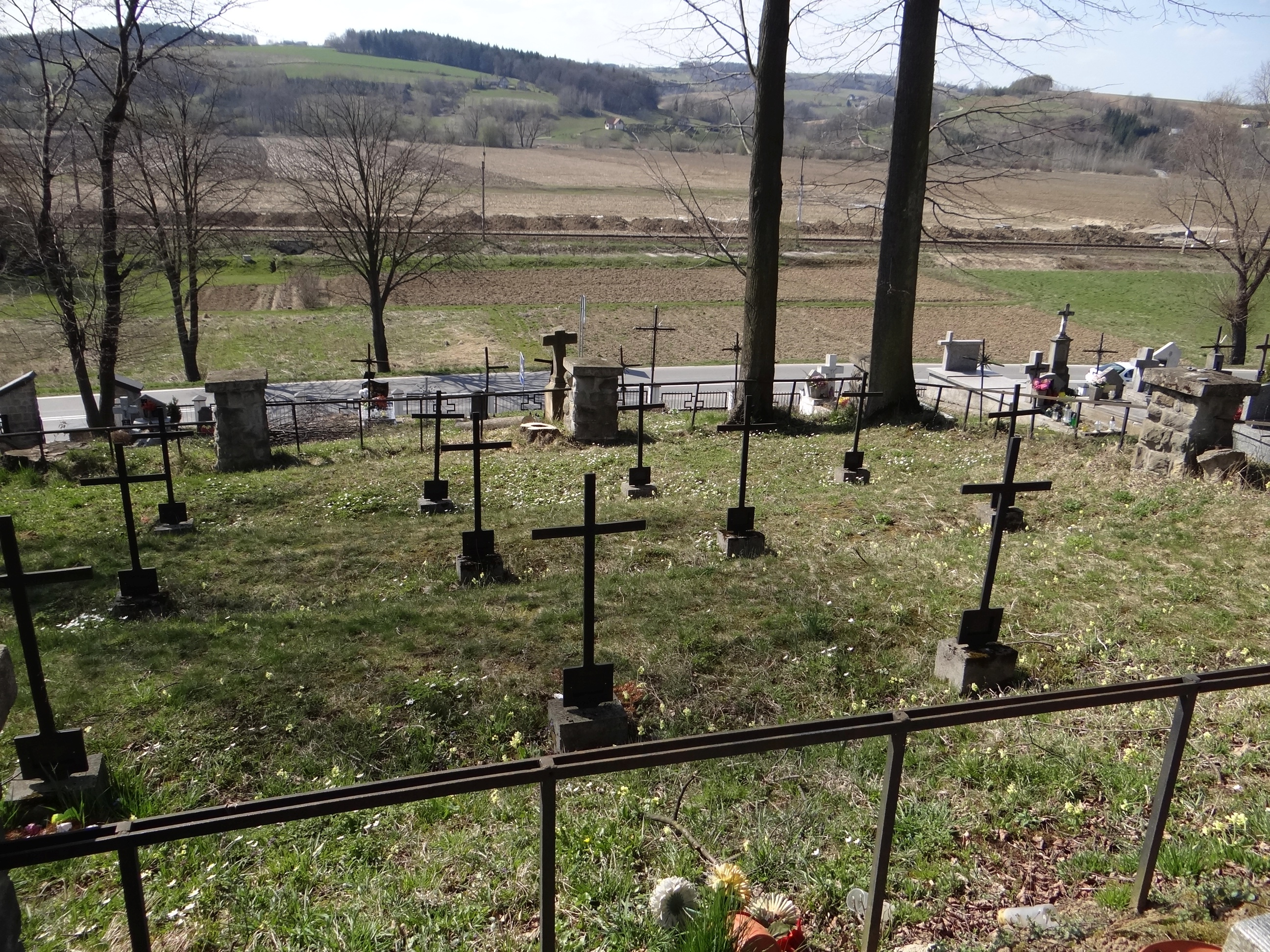 World War I Cemetery nr 134 in Siedliska